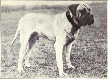 Mastiff from 1915